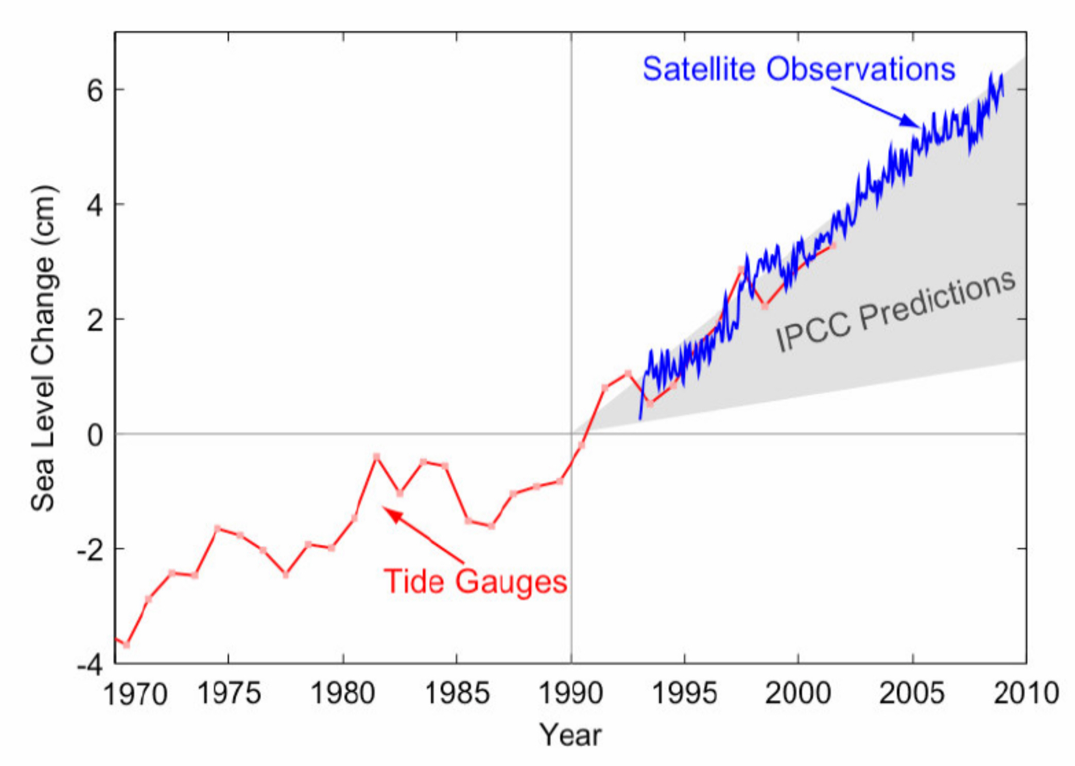 Observed sea level rise vs. IPCC projections